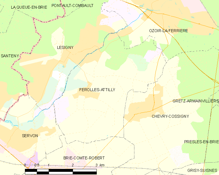 Map of French municipality Férolles-Attilly